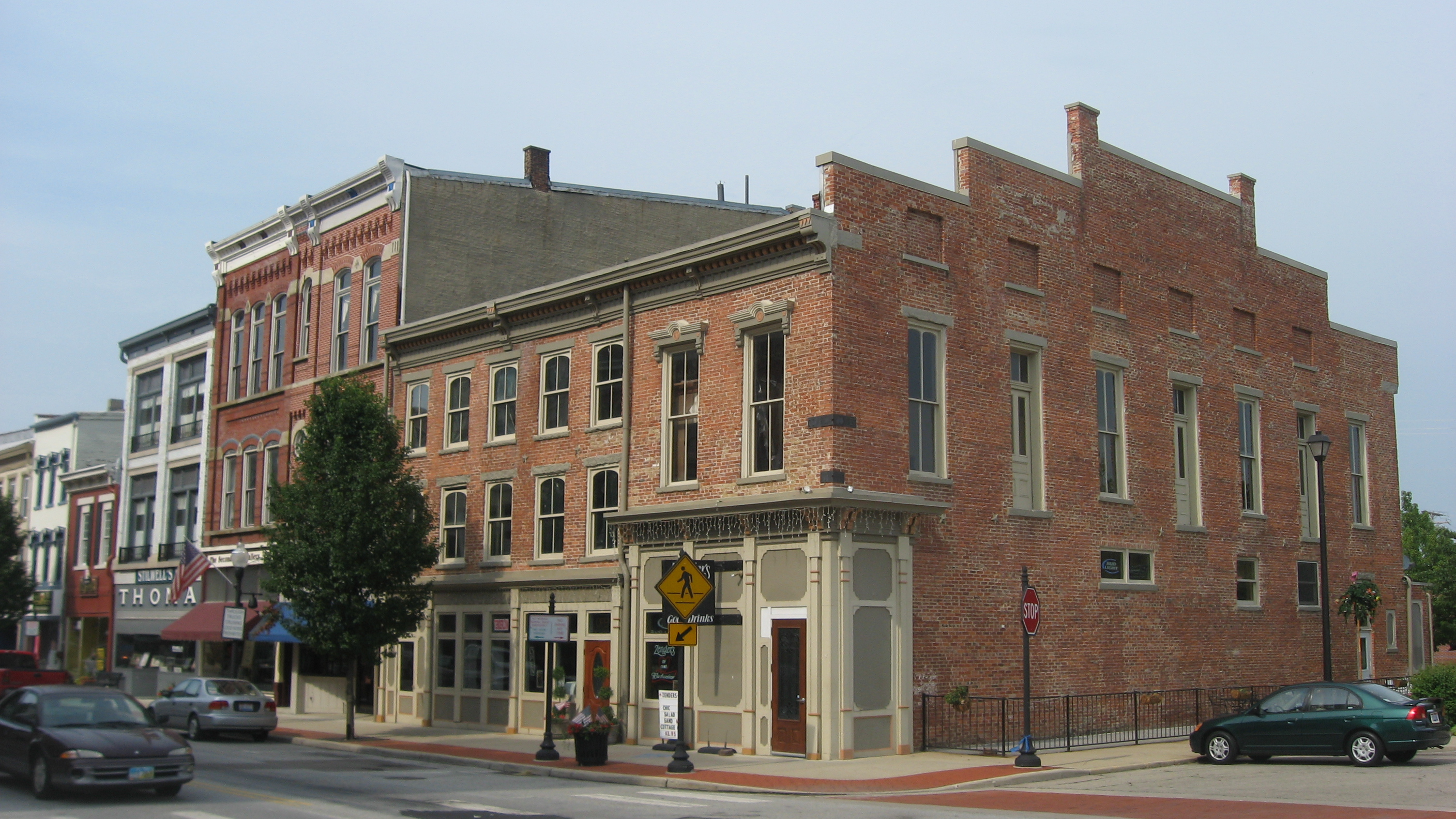 Buildings on the eastern side of the 200 block of N. Main Street (State Route 66) in downtown Piqua, Ohio, United States. This block is part of the Piqua-Caldwell Historic District, a historic district that is listed on the National Register of Historic Places.